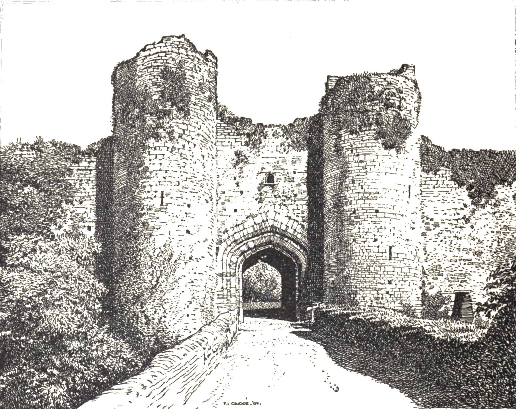 Gateway, Amberley Castle, page 84 Book about the Highways and Byways of Co. Sussex, England